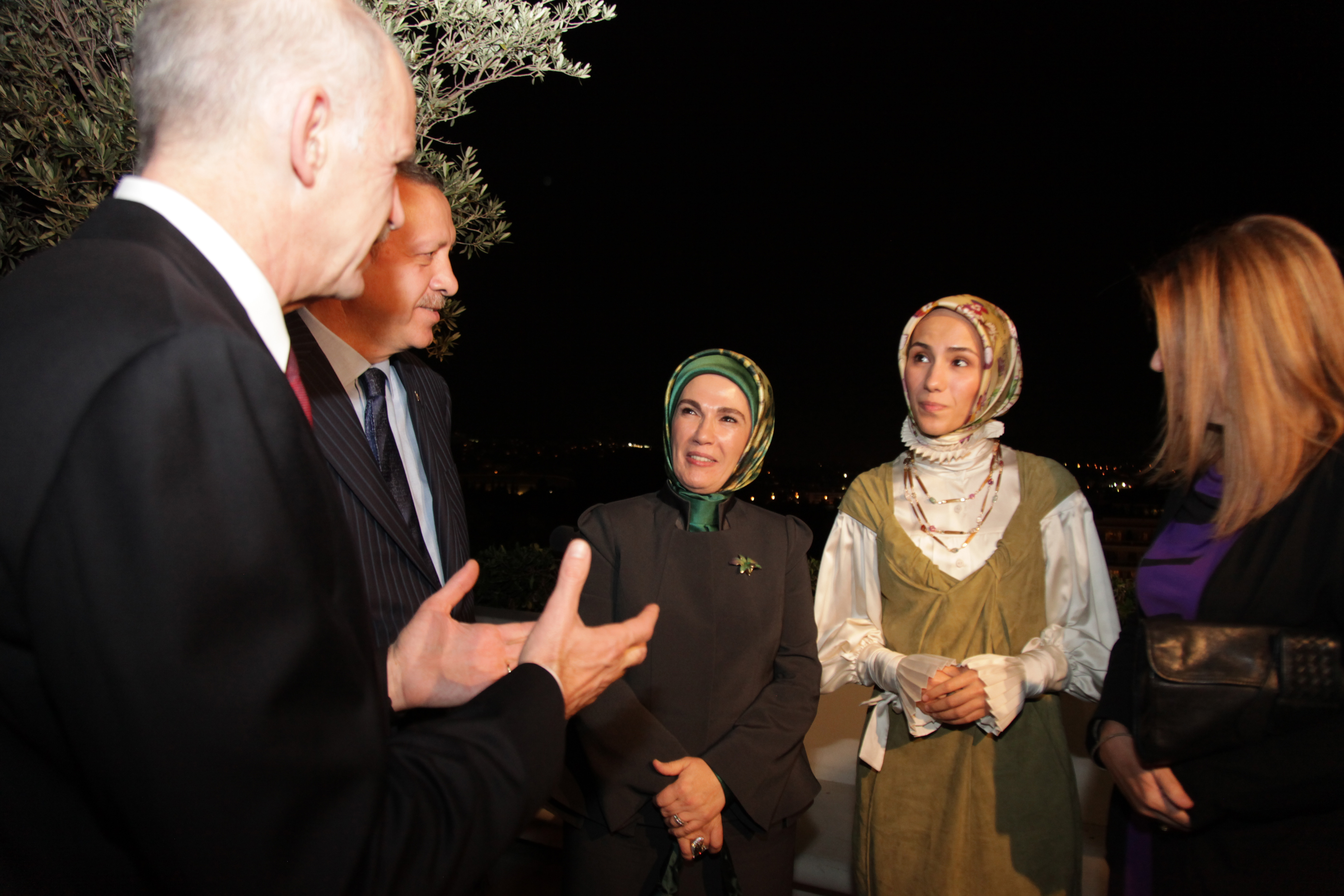 A dinner in Athens with the Greek Prime Minister George Papandreou and the Turkish Prime Minister Recep Tayyip Erdoğan.